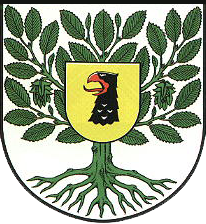 Coat of arms of Ahrensbök Blasonierung: In Silber eine bewurzelte grüne Buche, belegt mit einem goldenen Schild, darin ein abgerissener, rotbewehrter schwarzer Adlerkopf.